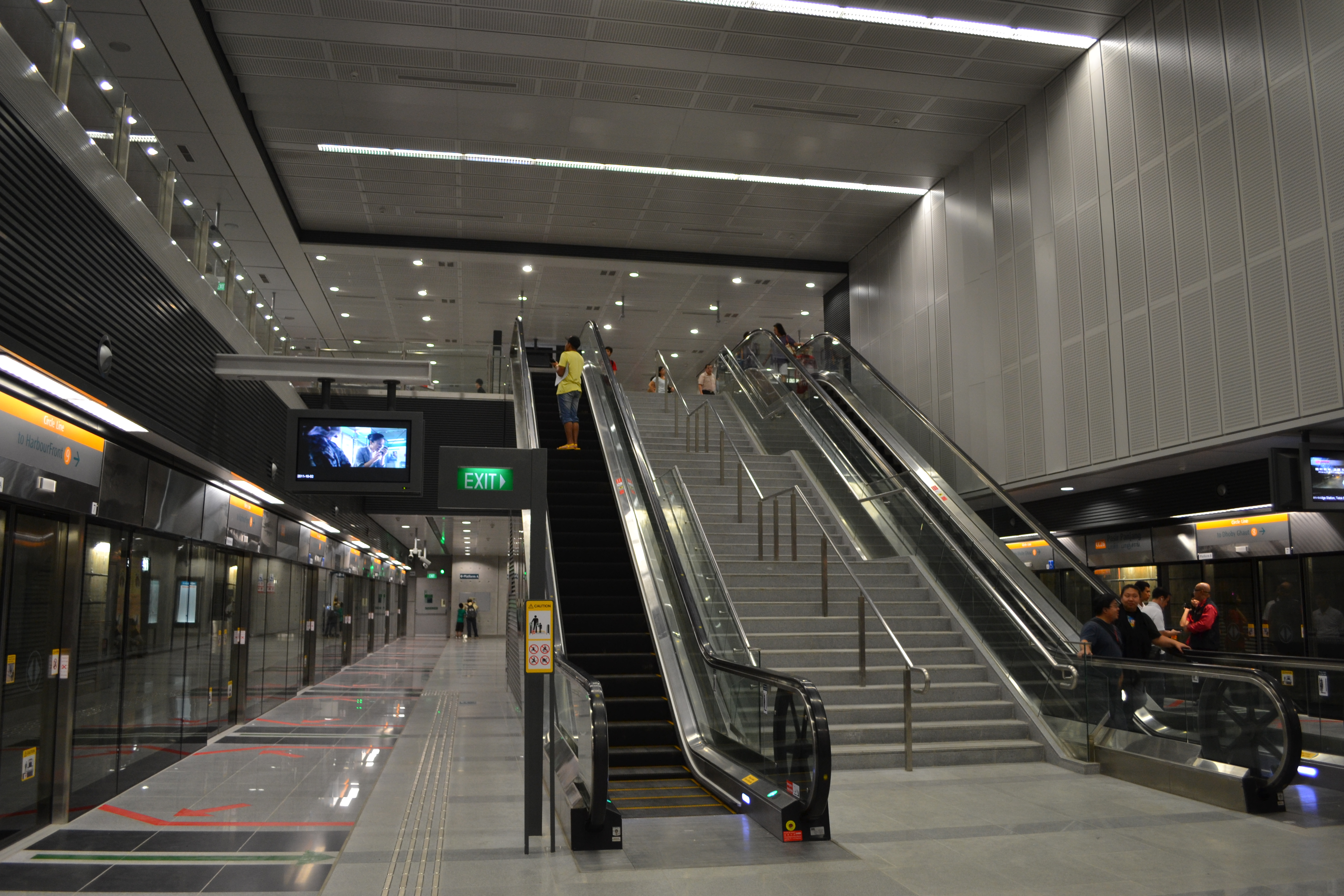 The platform level of Pasir Panjang MRT Station, Singapore.